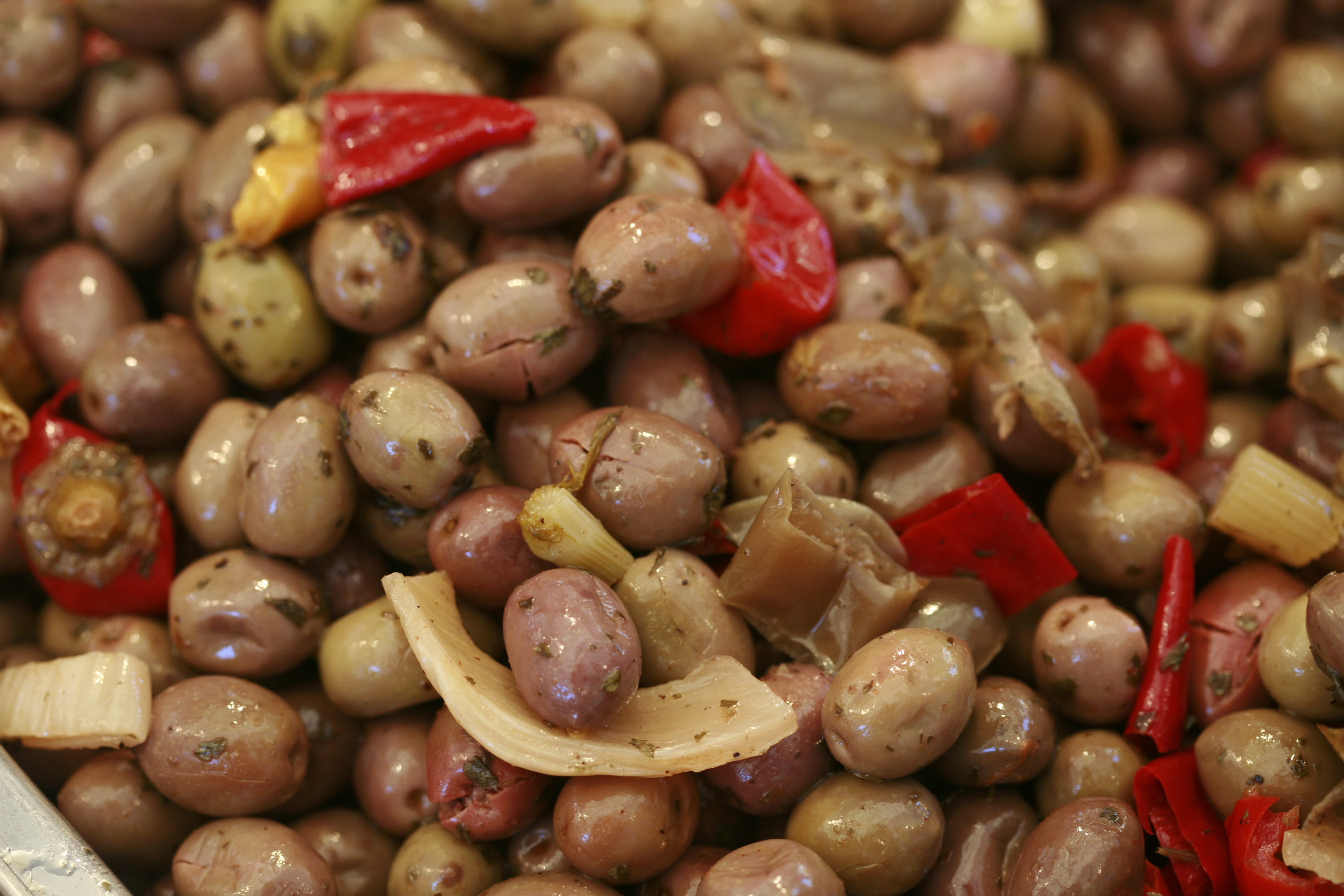 Olives